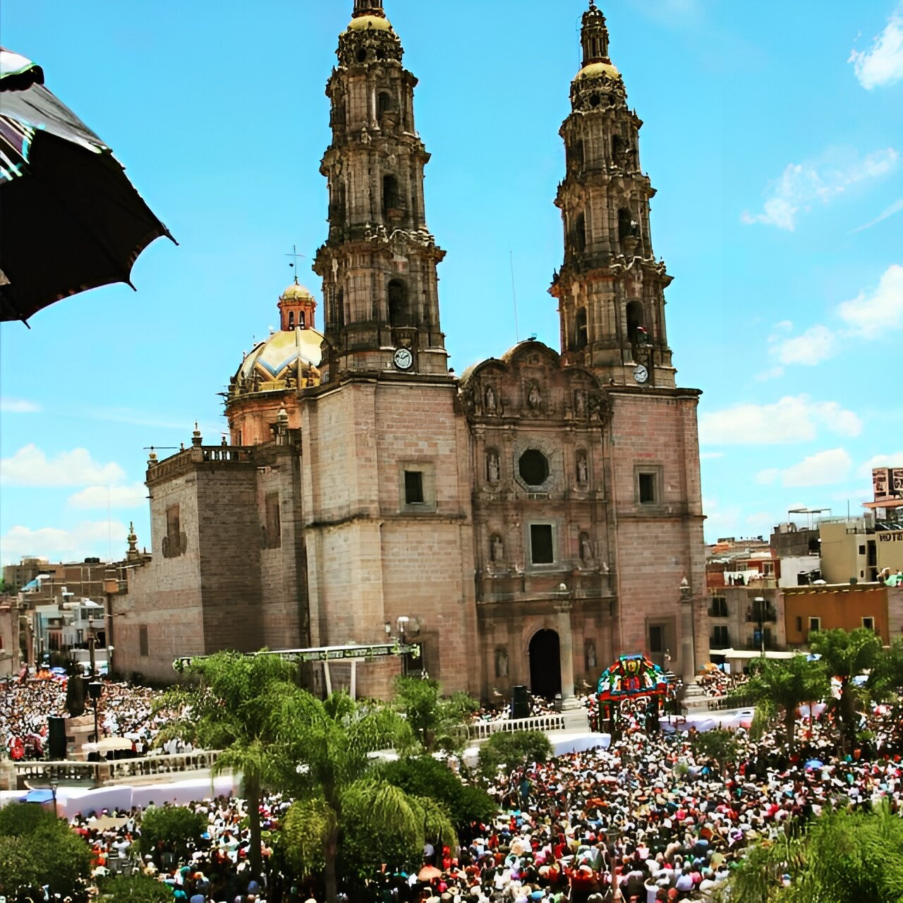 Full city plaza in the city of San Juan de los Lagos before the basilica.